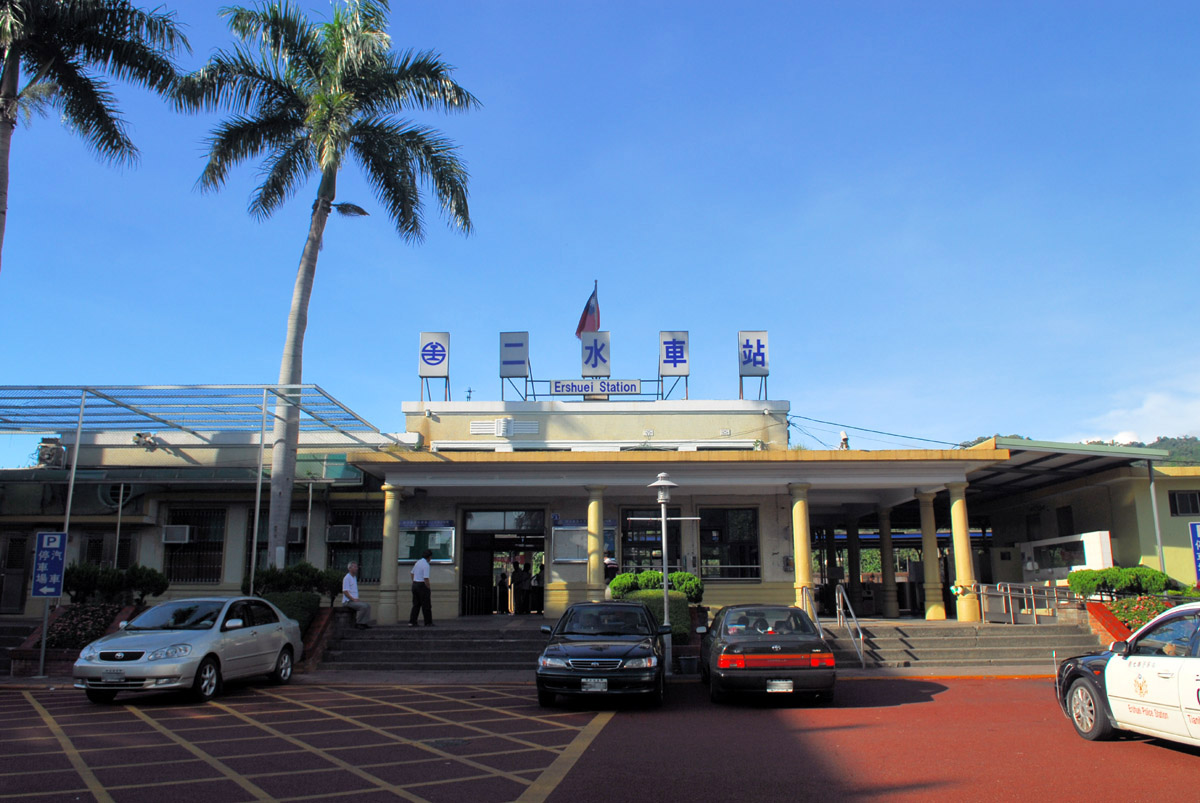 ErShuei Station is a local train station of Taiwan's Western main rail line. It's the main station of ErShuei Township, ChangHua County, and also the connecting point of Western Main Line and its branch, JiJi Line.